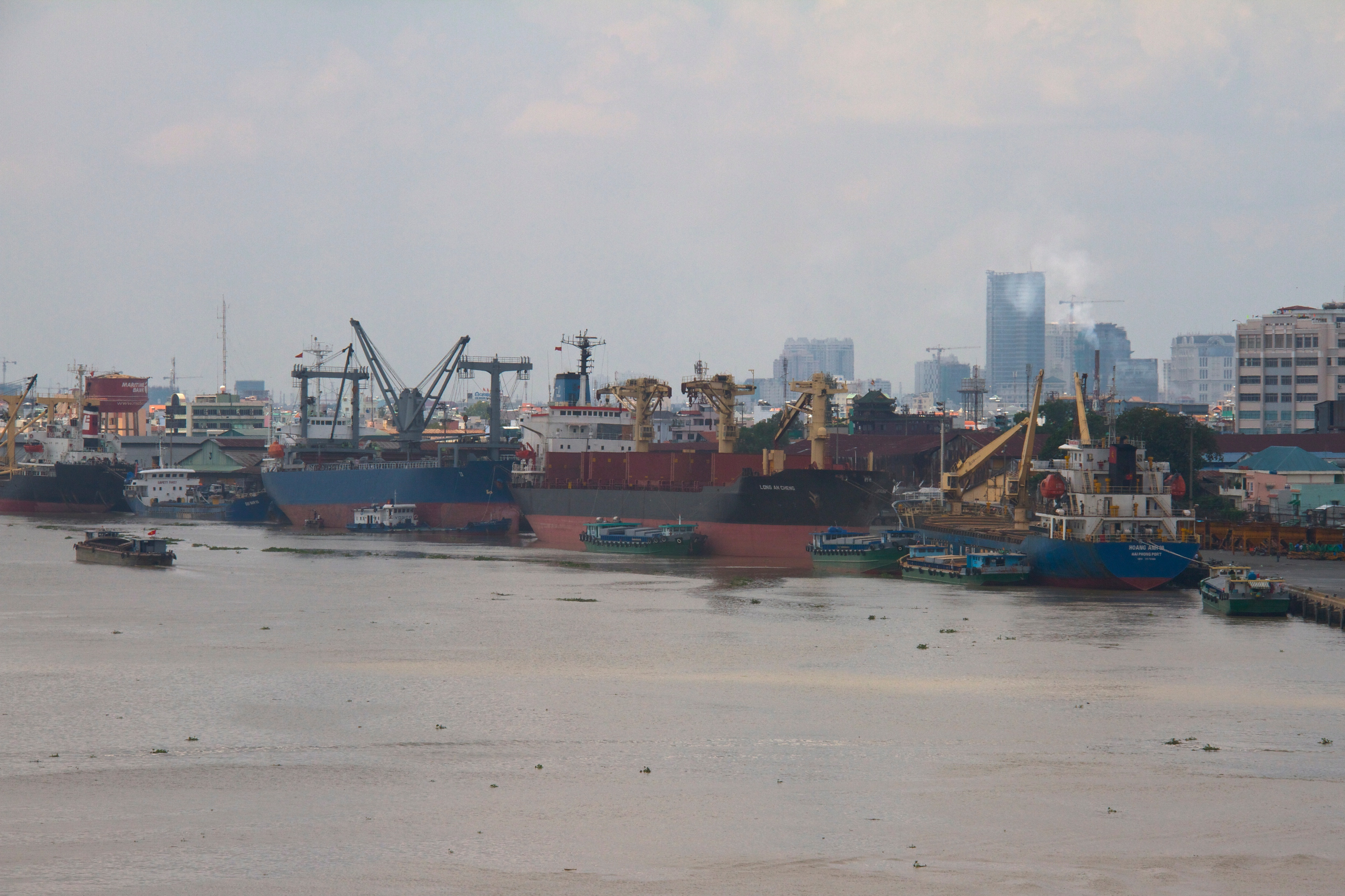 Saigon Port